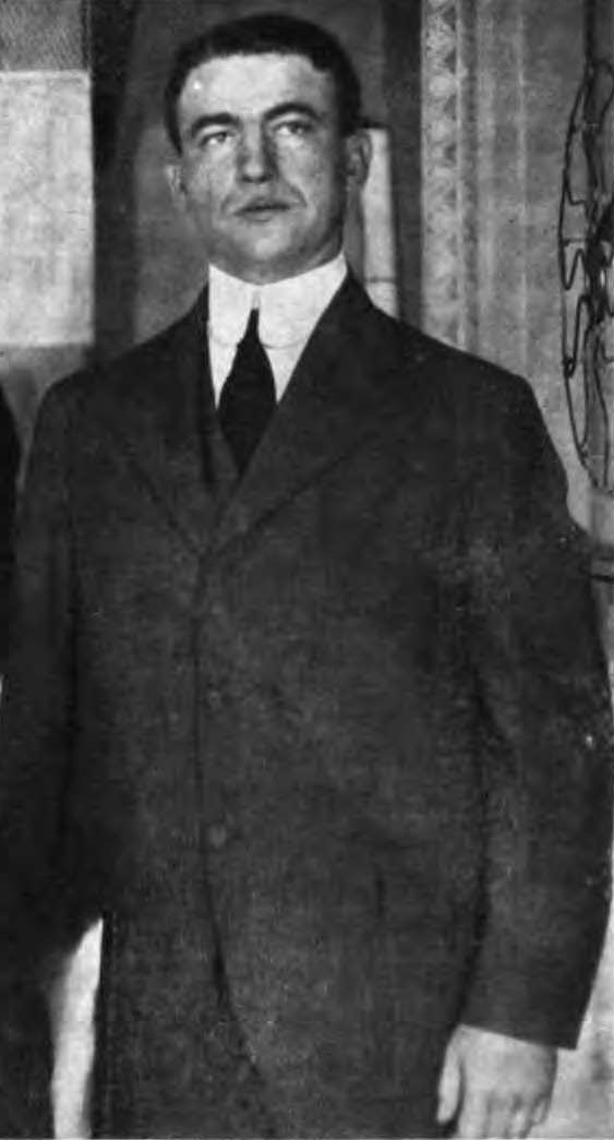 Lieutenant Byron McCandless in 1915, after being named as an aide to the first Chief of Naval Operations, Admiral Benson.